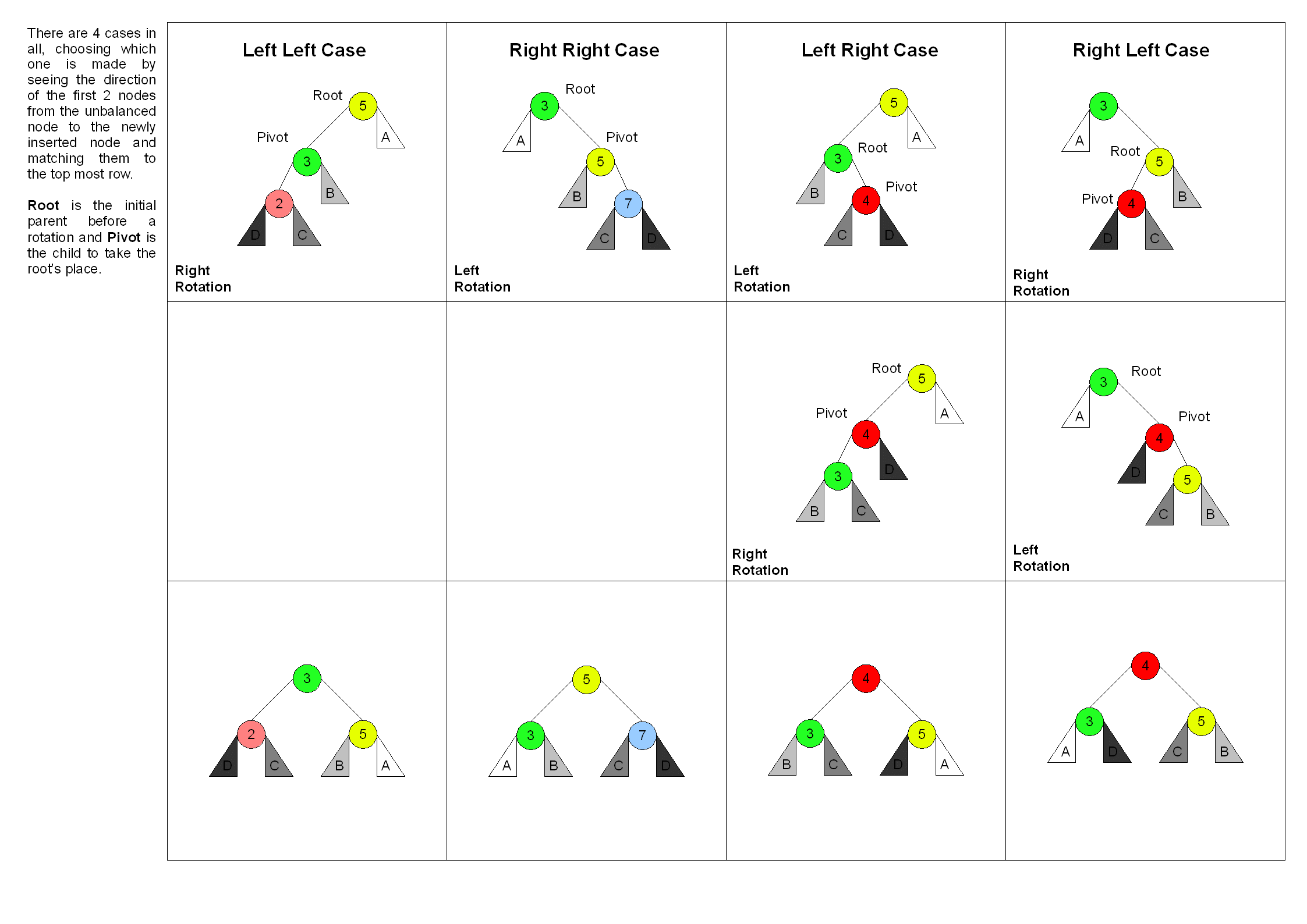 A table showing the 4 cases of AVL tree rebalancing using rotations. By Marc Tanti